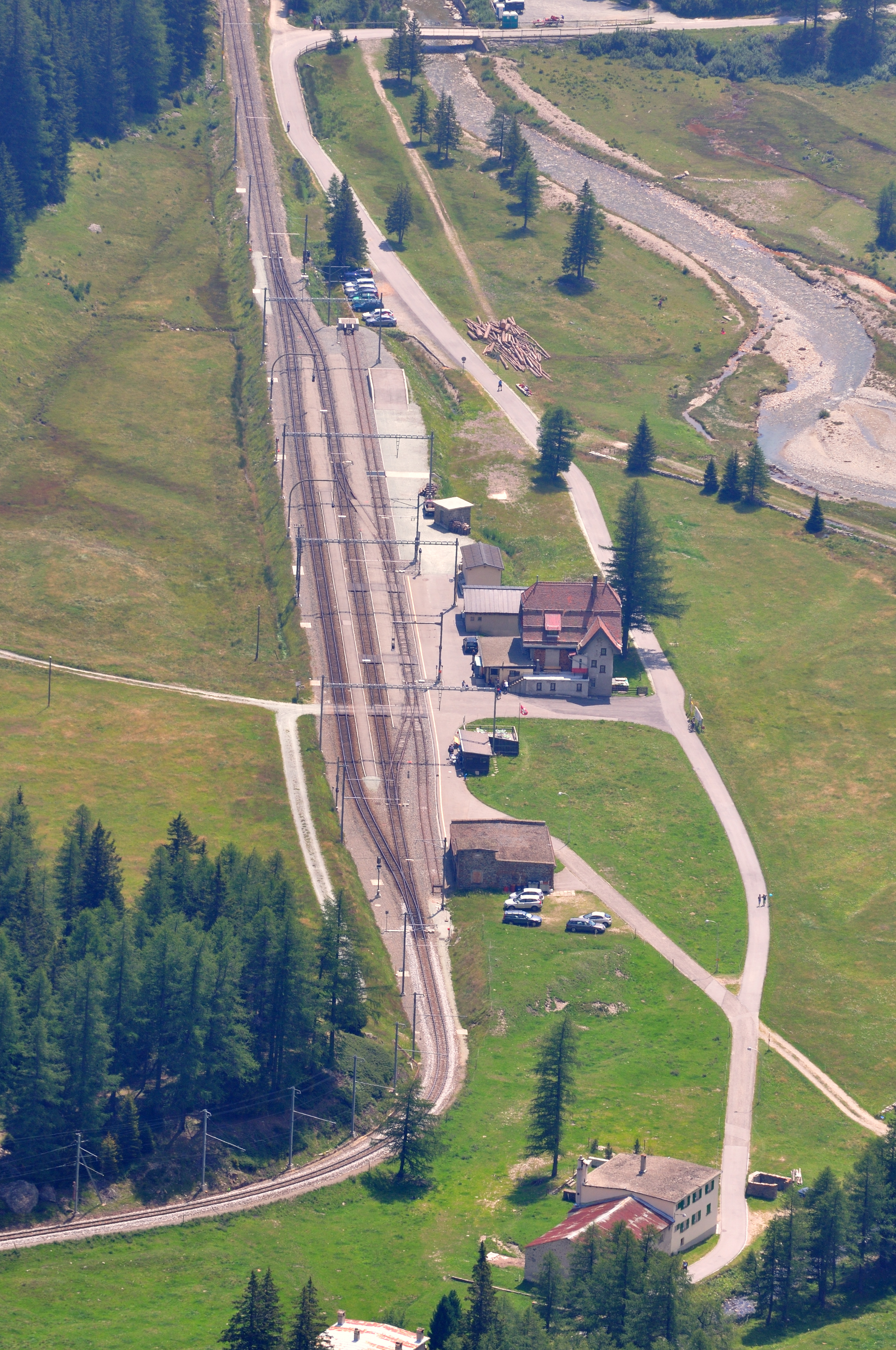 Switzerland, Graubünden, Bernina line of the Rhaetian railway